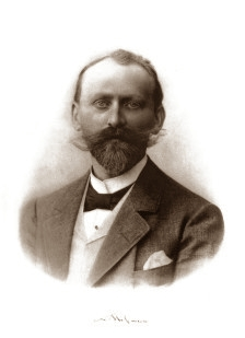 Max Hofmeier